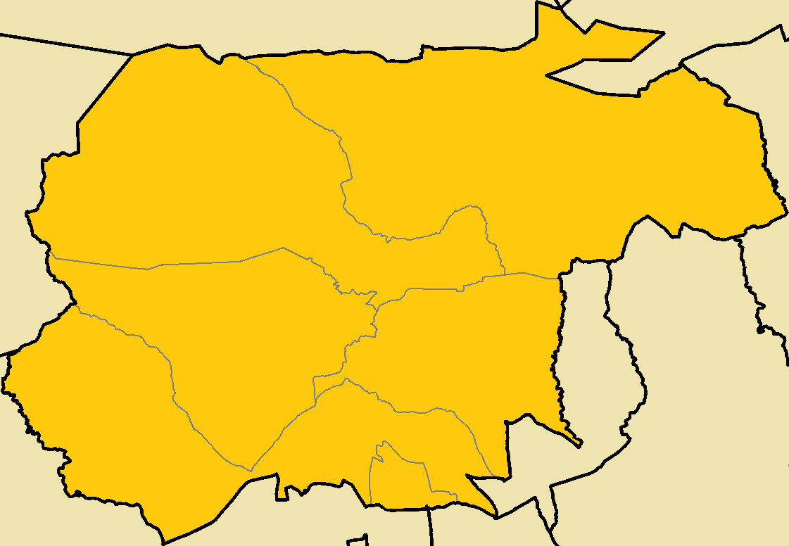 Kythrea Municipality with quarters (de jure).